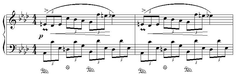 Impromptu No. 1 in A flat major, Op. 29 (first foru bars)